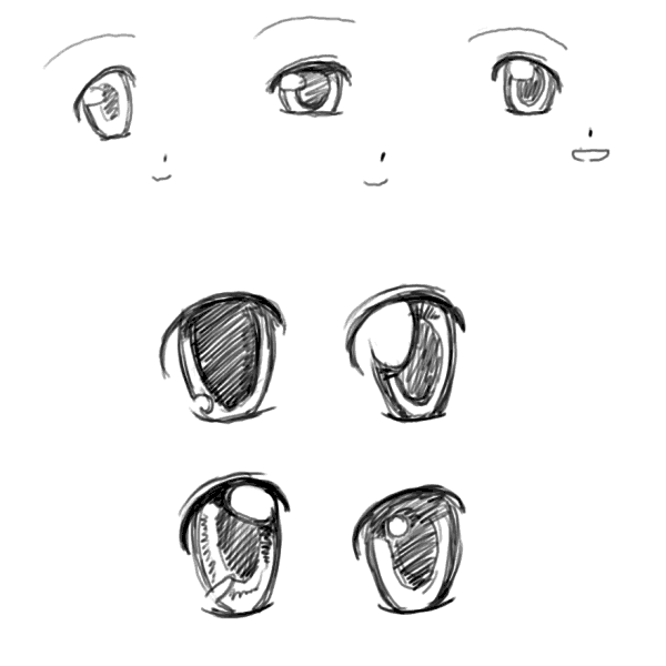 Pages using the image: Bishōjo, Manga. See also: Image:Moe-Manga-pic.GIF